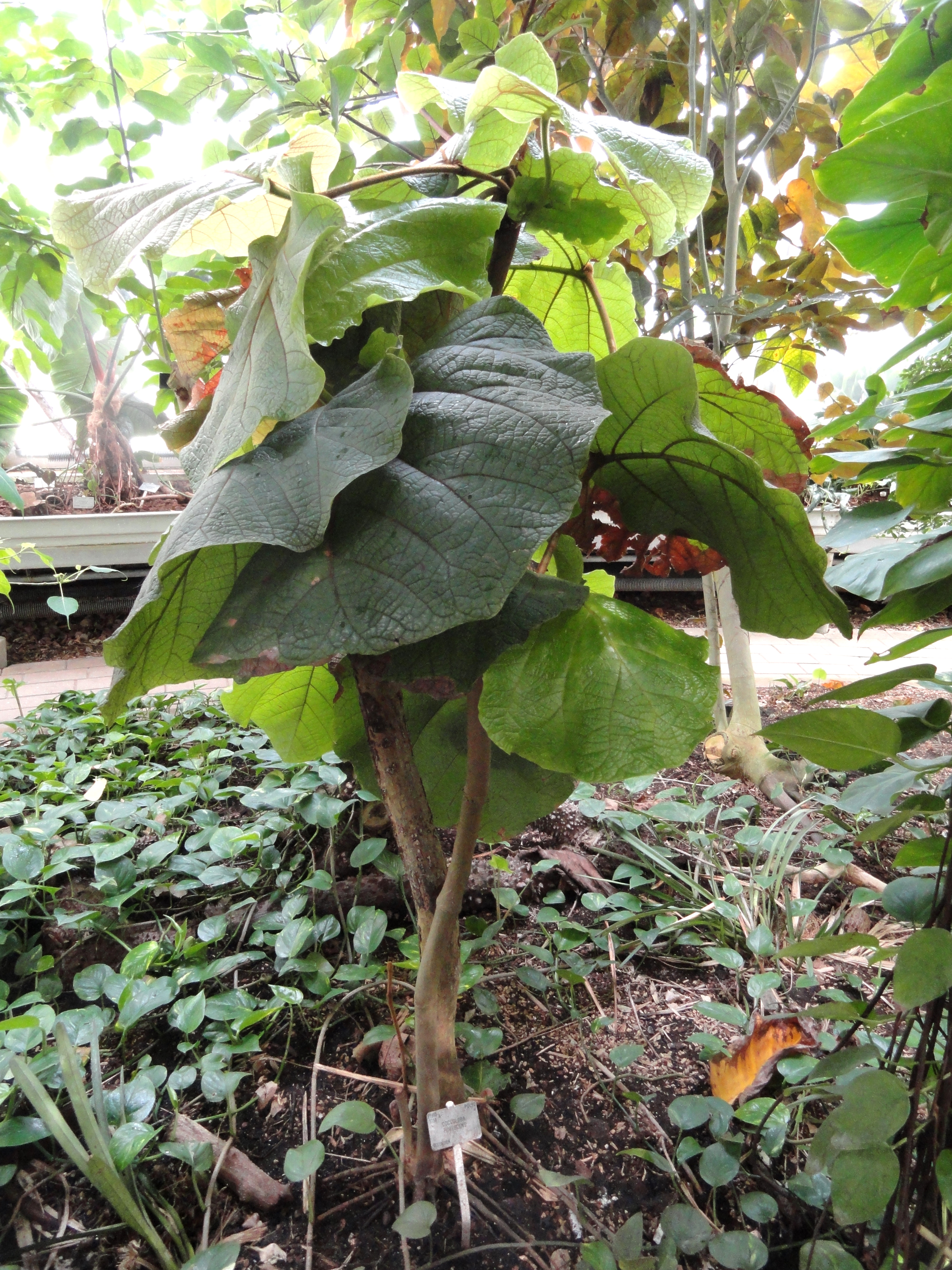 Botanical specimen in the University of Copenhagen Botanical Garden, Copenhagen, Denmark.